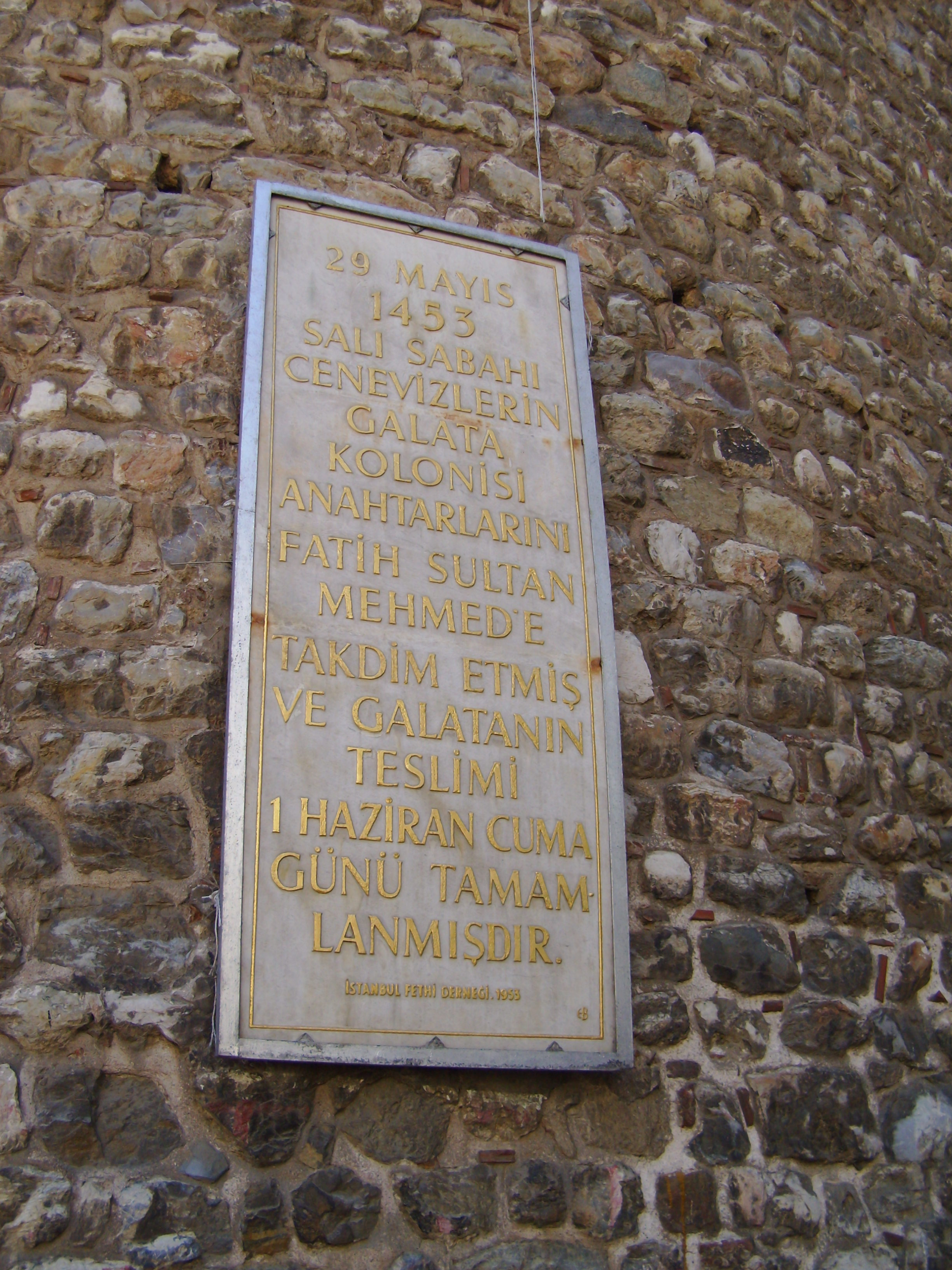 The inscription on the Galata Tower, Galata district, Istanbul. Text on the inscription: 29 MAYS /(1453)/ SALI SABAHI / CENEVIZLERIN / GALATA / KOLONISI /ANAHTARLARINI / FATIH SULTAN /MEHMED' E /TAKDIM ETMIS / VE GALATININ / TESLIMI /I HAZIRAN CUMA / GUNU TAMAM /LAN MISIDIR